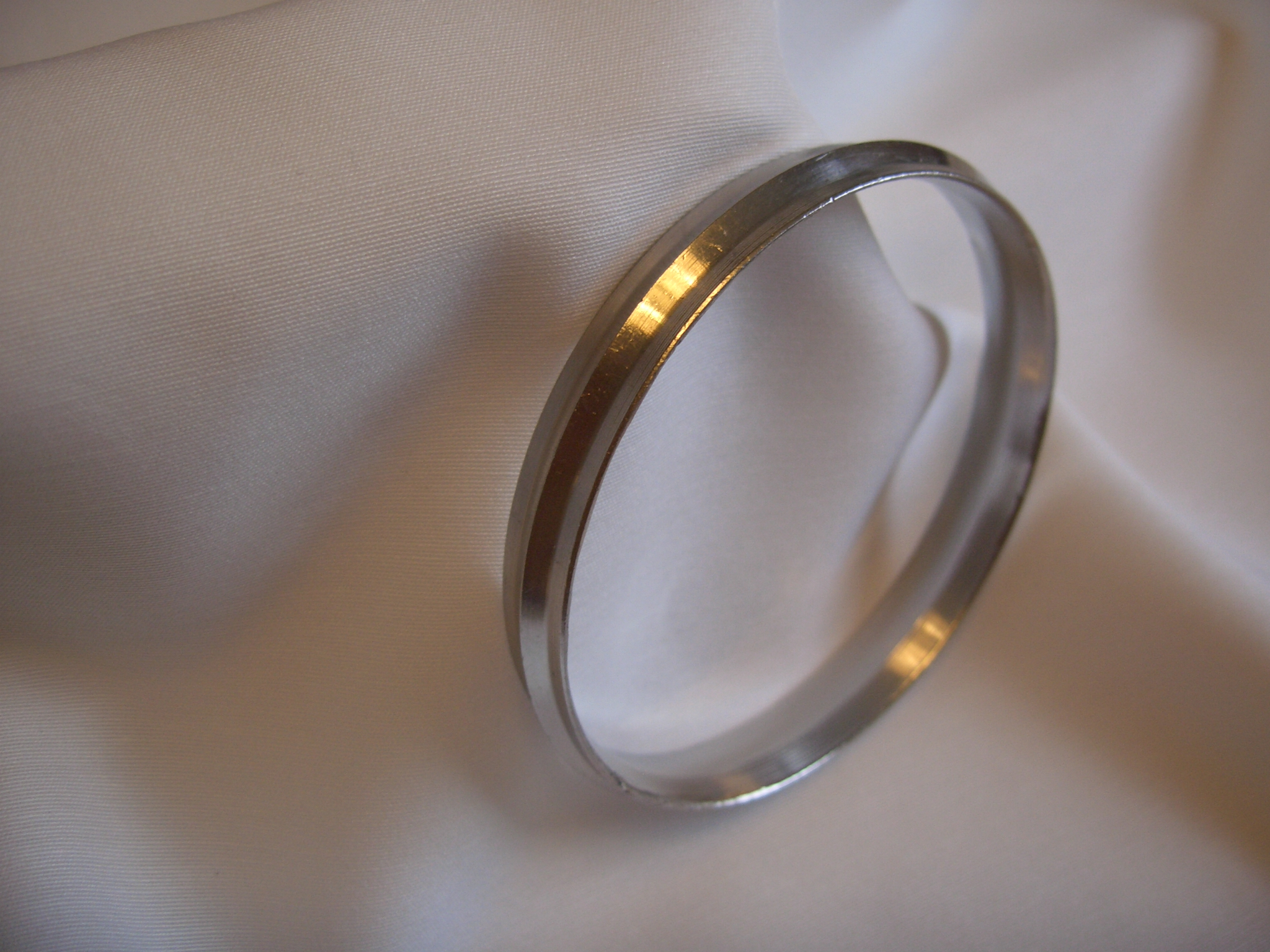 Sikhism Related Photo of Steel Kara - one of five articles of faith.